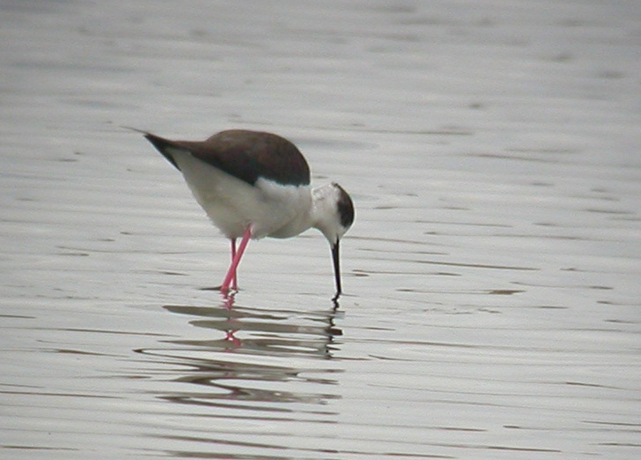 Picture of Himantopus himantopus taken in beidaihe hebei China.